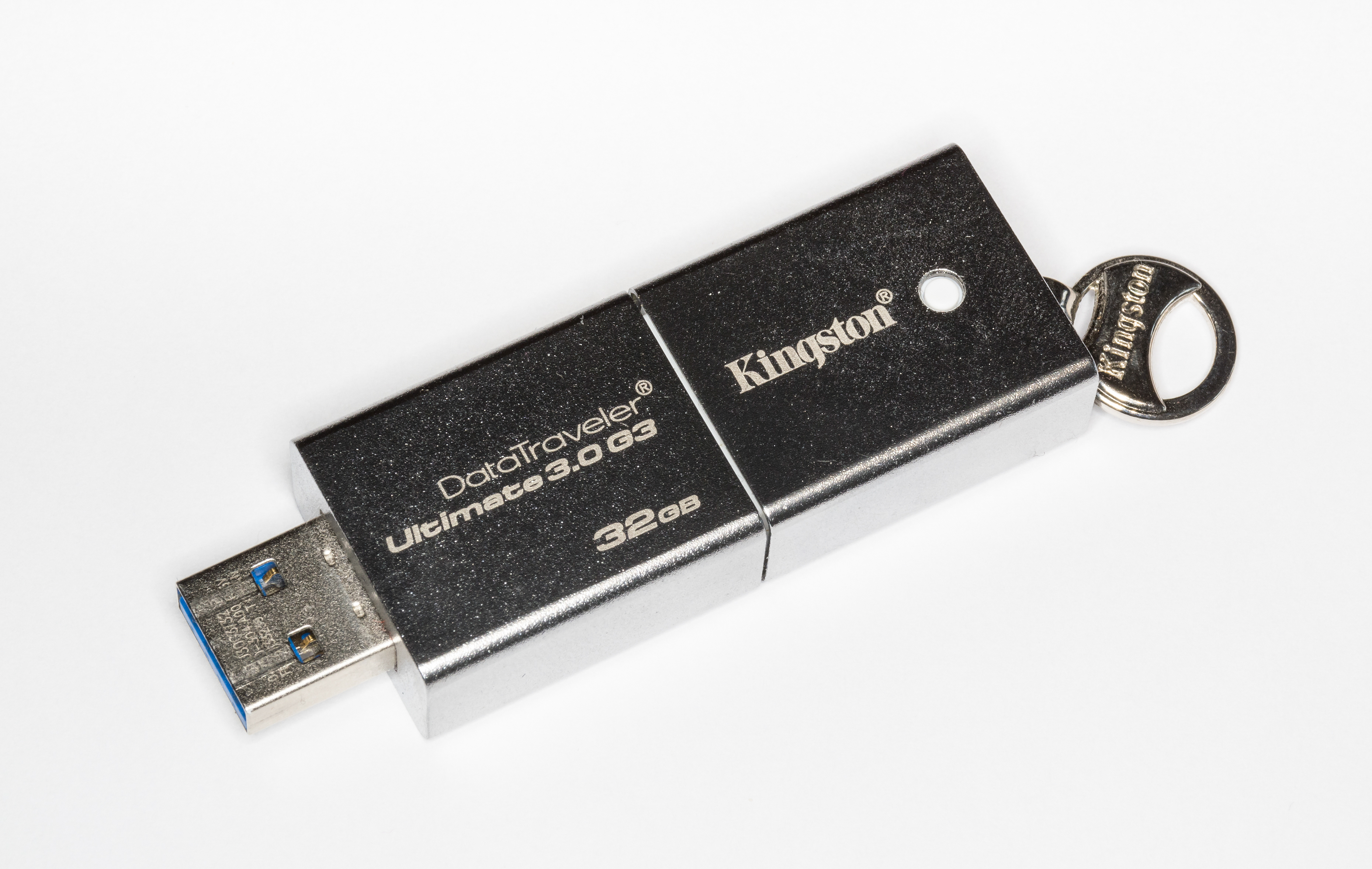 Pendrive Kingston DataTraveler Ultimate 3.0 G3 32GB